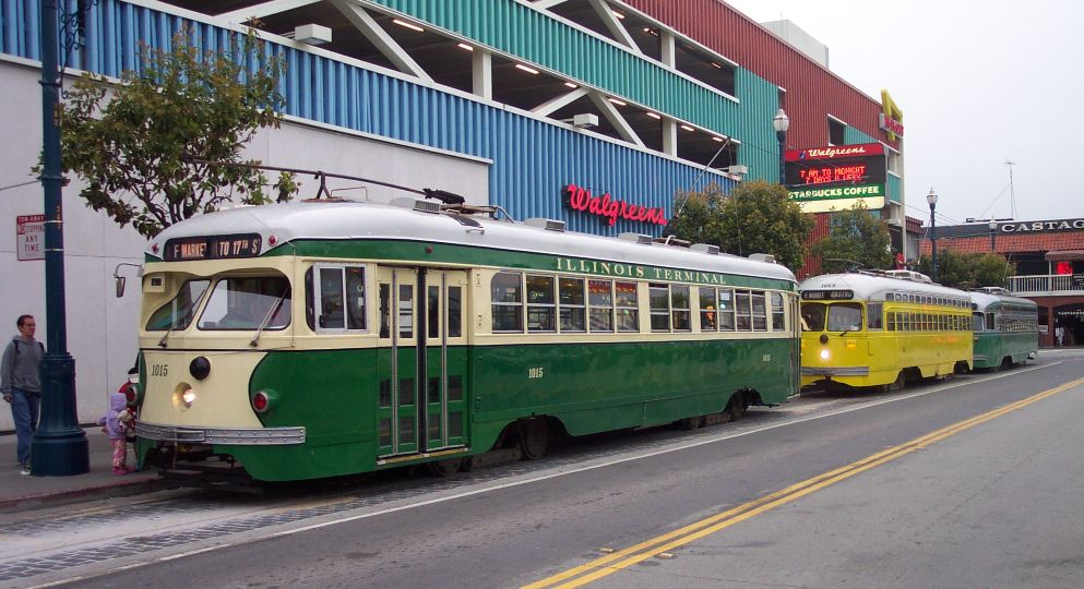 San Francisco F Market line streetcars at Jones.